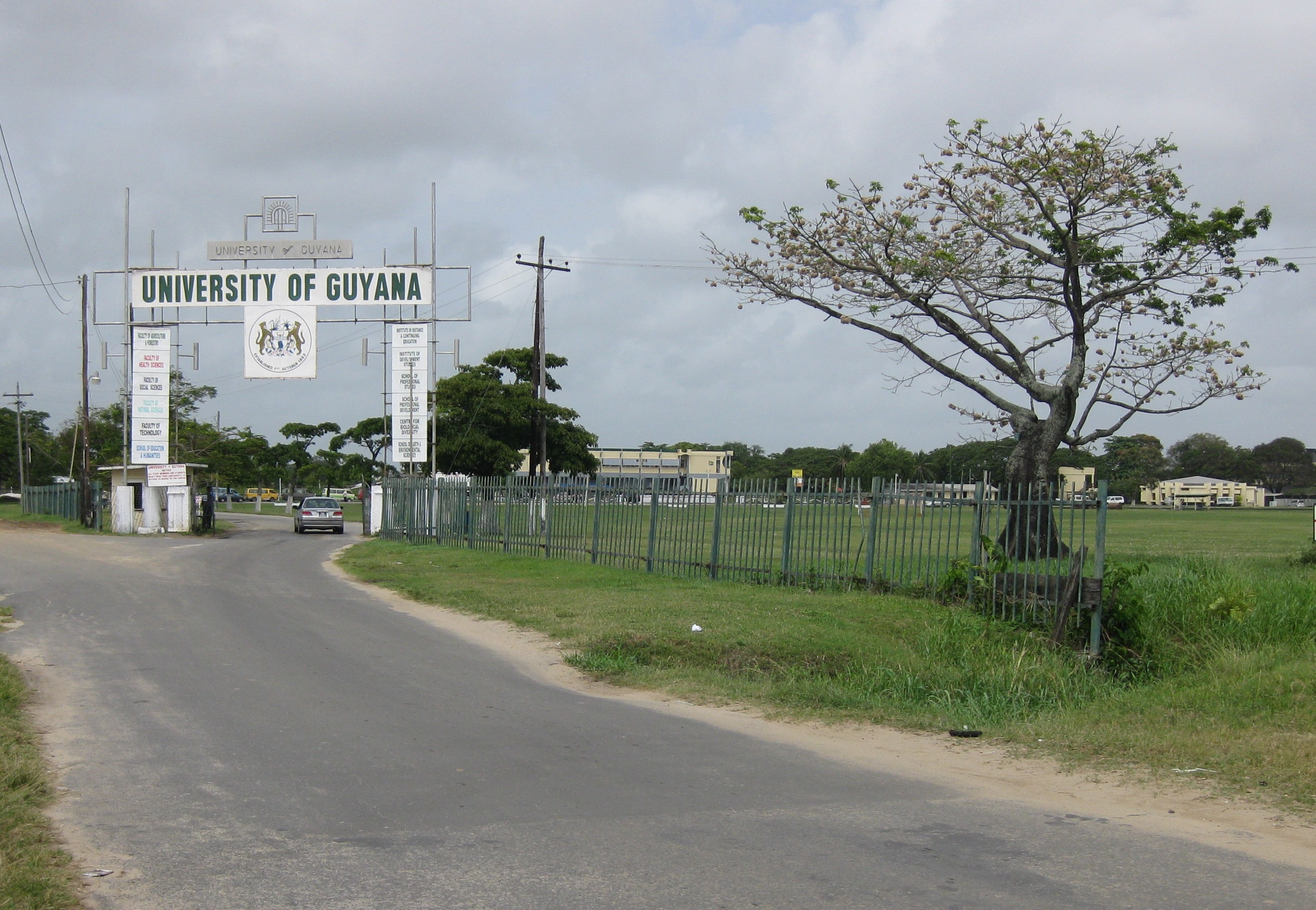 Photograph of the Entrance to the University of Guyana